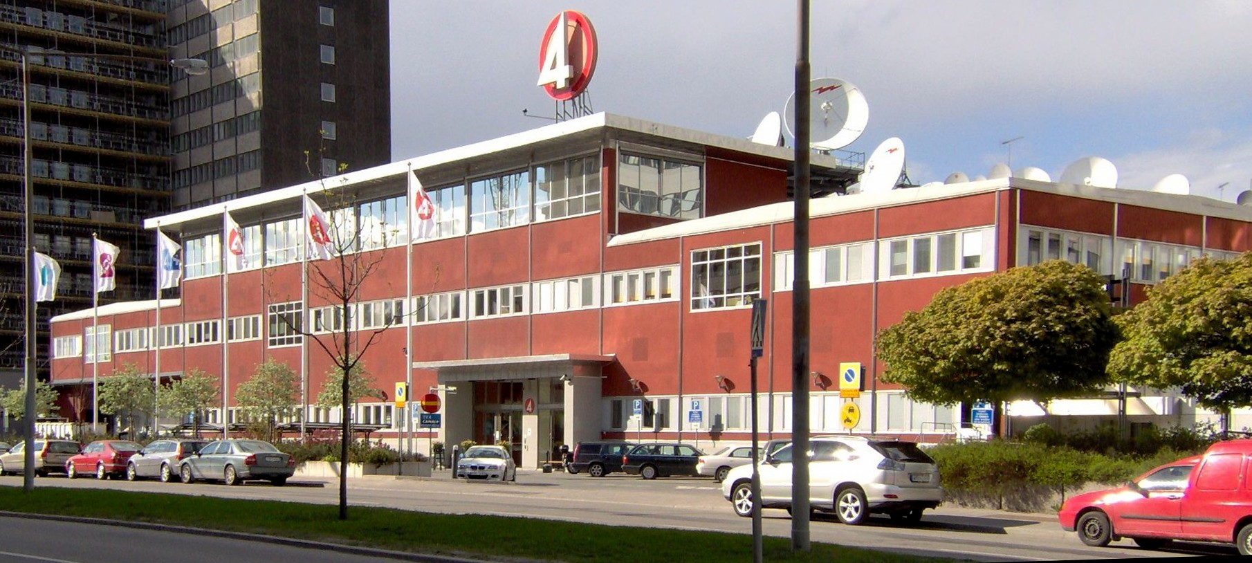 TV4 building in Stockholm, Sweden.